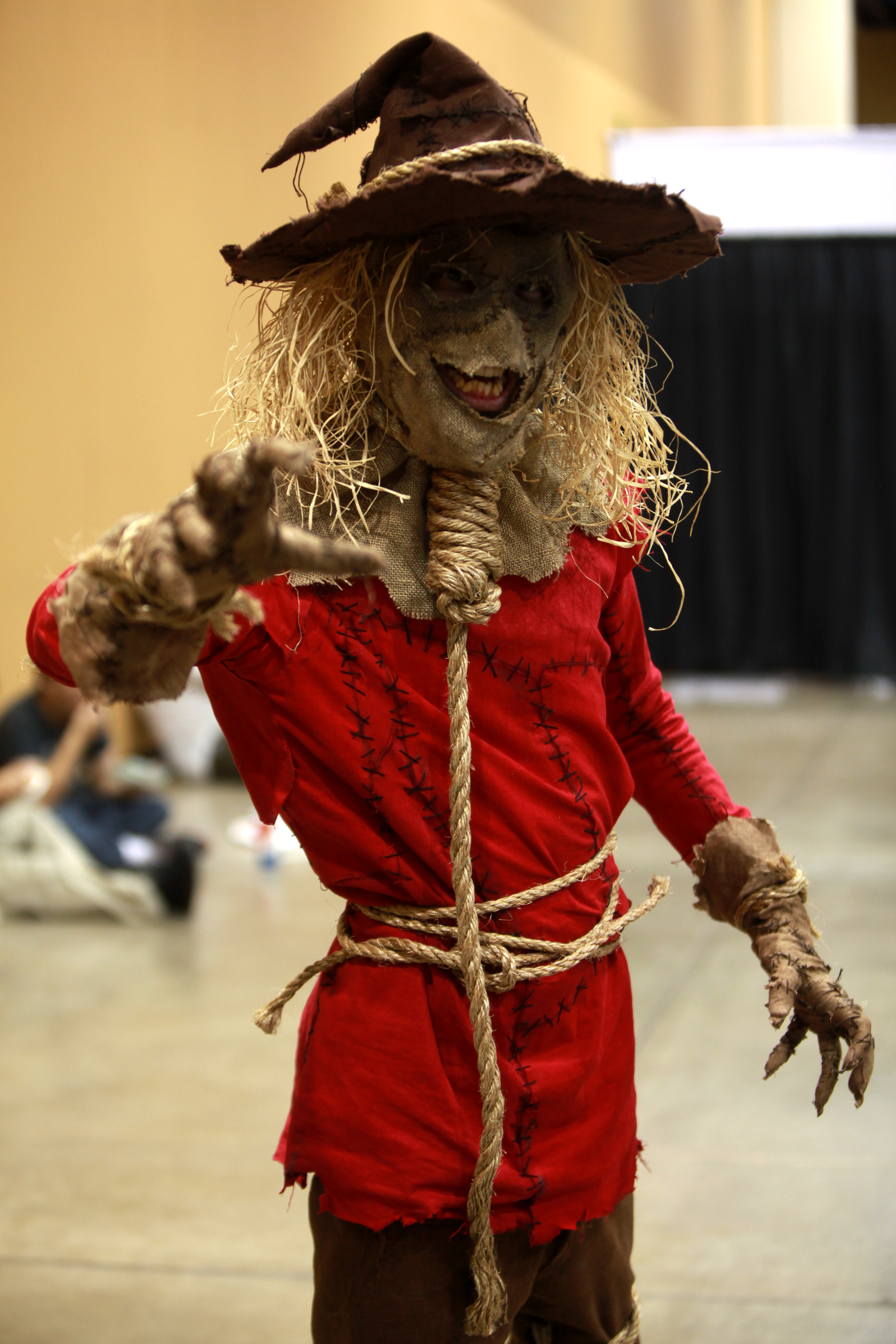 The Scarecrow of Batman cosplayer at the 2014 Amazing Arizona Comic Con at the Phoenix Convention Center in Phoenix, Arizona.